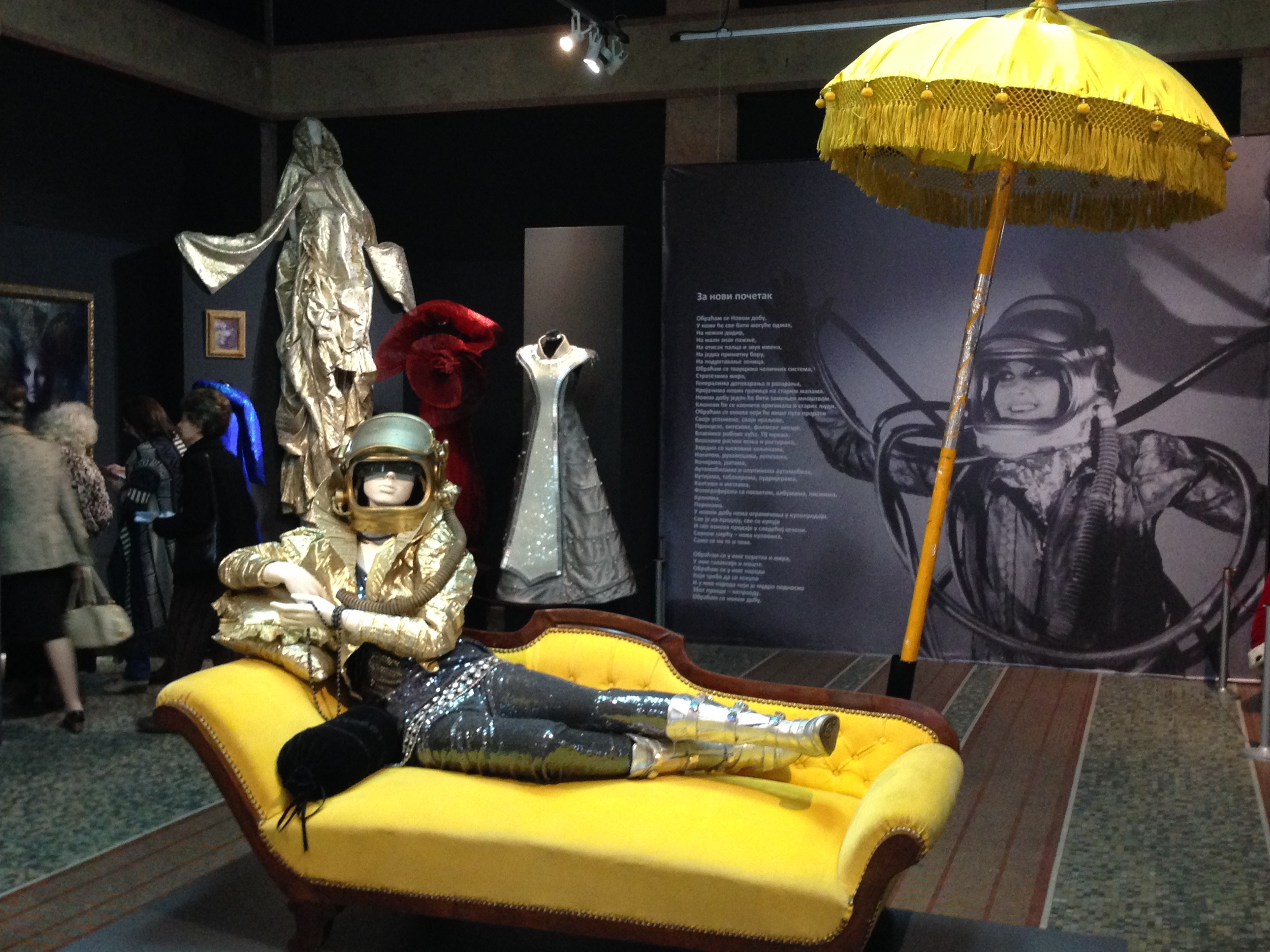 Legacy Olja Ivanjicki, Serbia